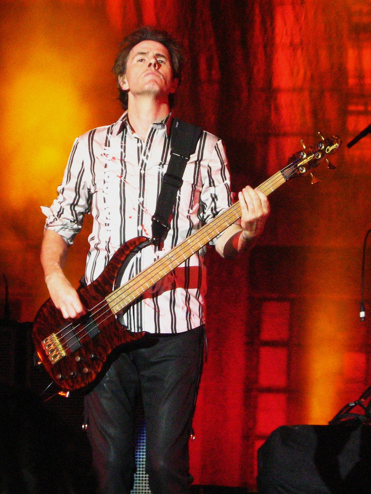 John Taylor (Duran Duran bass guitarist).